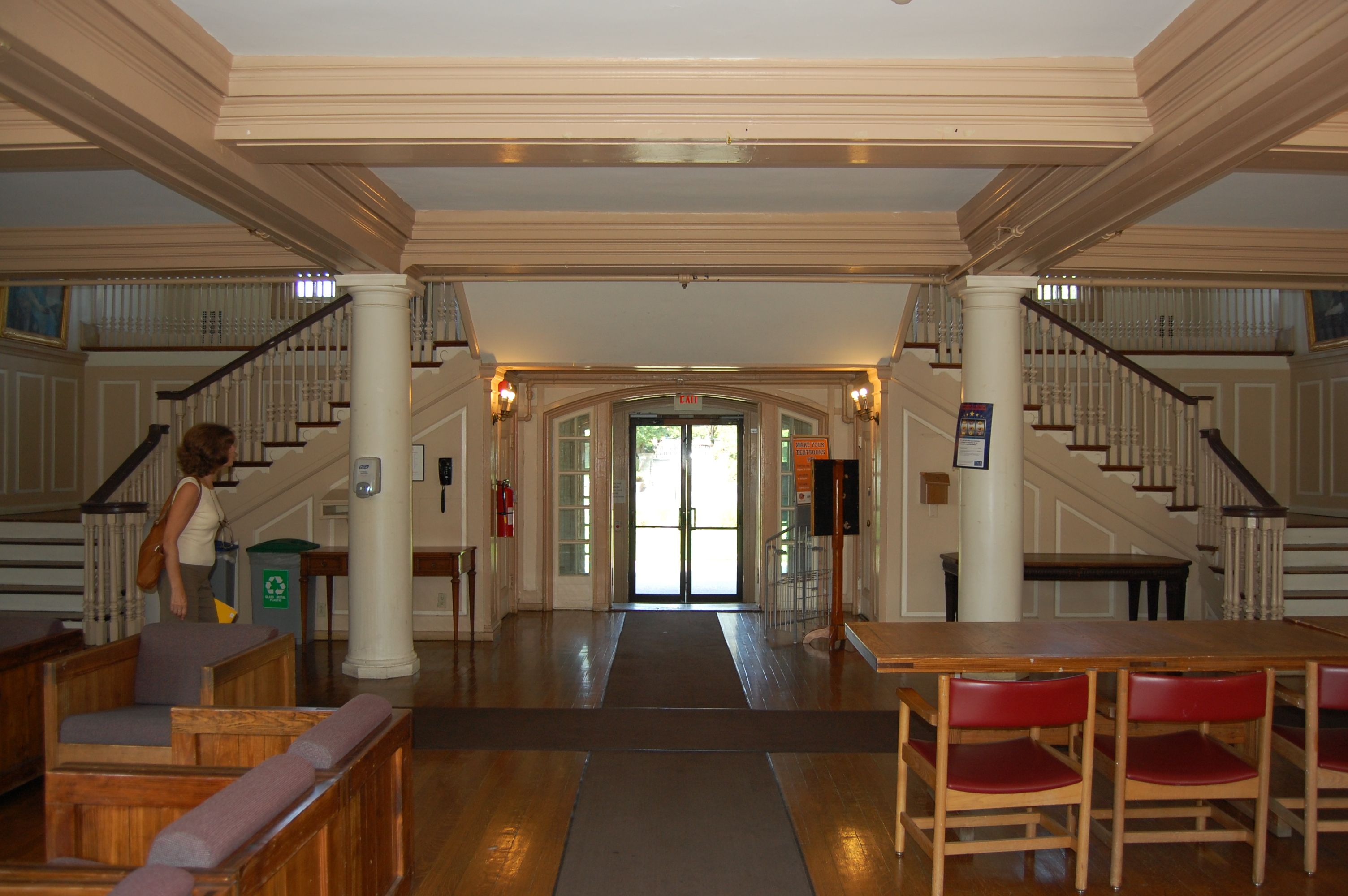 This is an image of Pace University's Dow Hall, formerly Briarcliff College and Mrs. Dow's School.